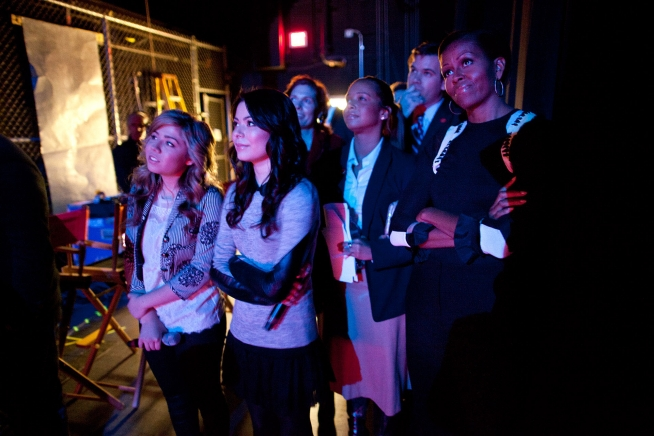 First Lady Michelle Obama watches a performance backstage with iCarly cast members Jennette McCurdy, left, and Miranda Cosgrove and members of her staff prior to an iCarly screening at Hayfield Secondary School in Alexandria, Va., Jan. 13, 2012. Mrs. Obama joined the cast of Nickelodeon’s iCarly at a special screening of “iMeet The First Lady,” a new episode featuring Mrs. Obama that honors America’s military children.